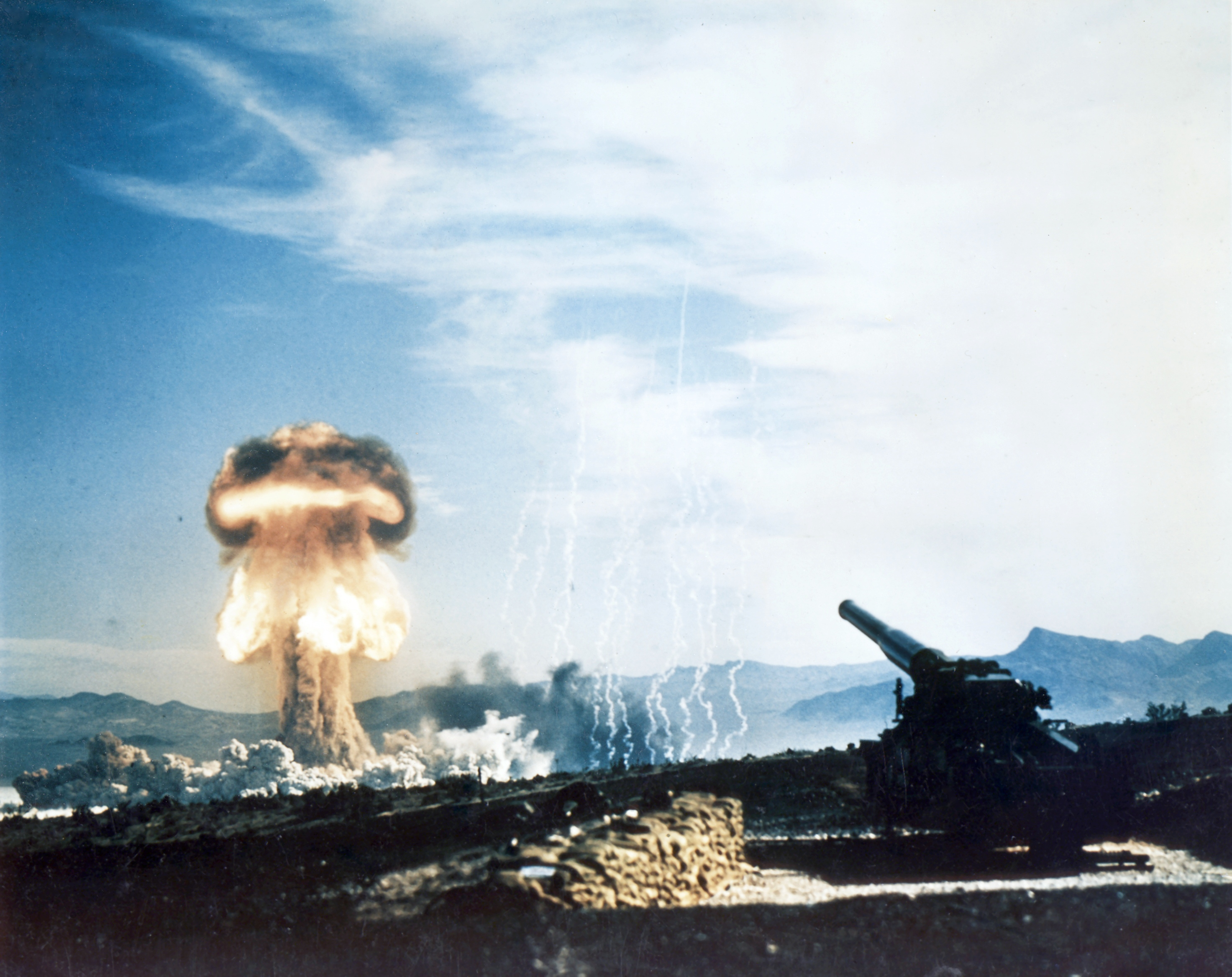 GRABLE EVENT - Part of Operation Upshot-Knothole, was a 15-kiloton test fired from a 280-mm cannon on May 25, 1953 at the Nevada Proving Grounds. Frenchman's Flat, Nevada - Atomic Cannon TestHistory's first atomic artillery shell fired from the Army's new 280-mm artillery gun. Hundreds of high ranking Armed Forces officers and members of Congress are present. The fireball ascending.